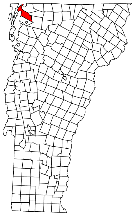 Map of Vermont towns with Swanton highlighted